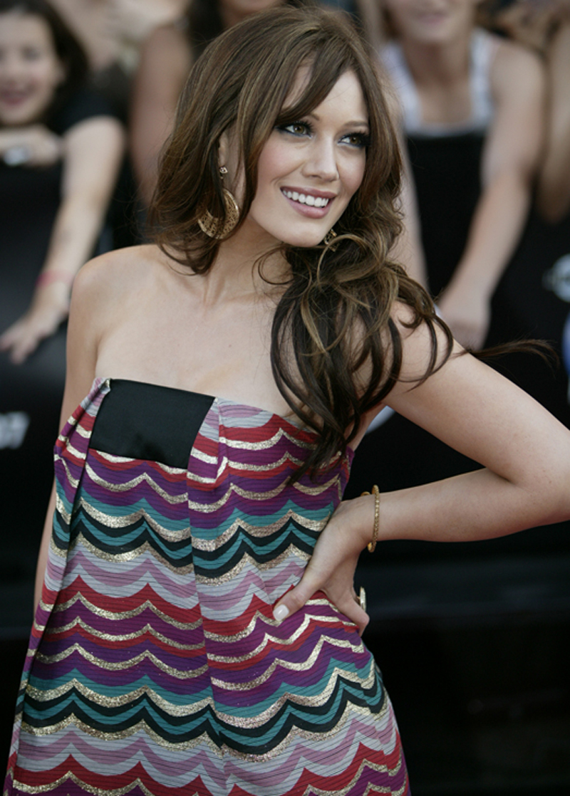 American singer Hilary Duff at the 2007 MuchMusic Video Awards red carpet.